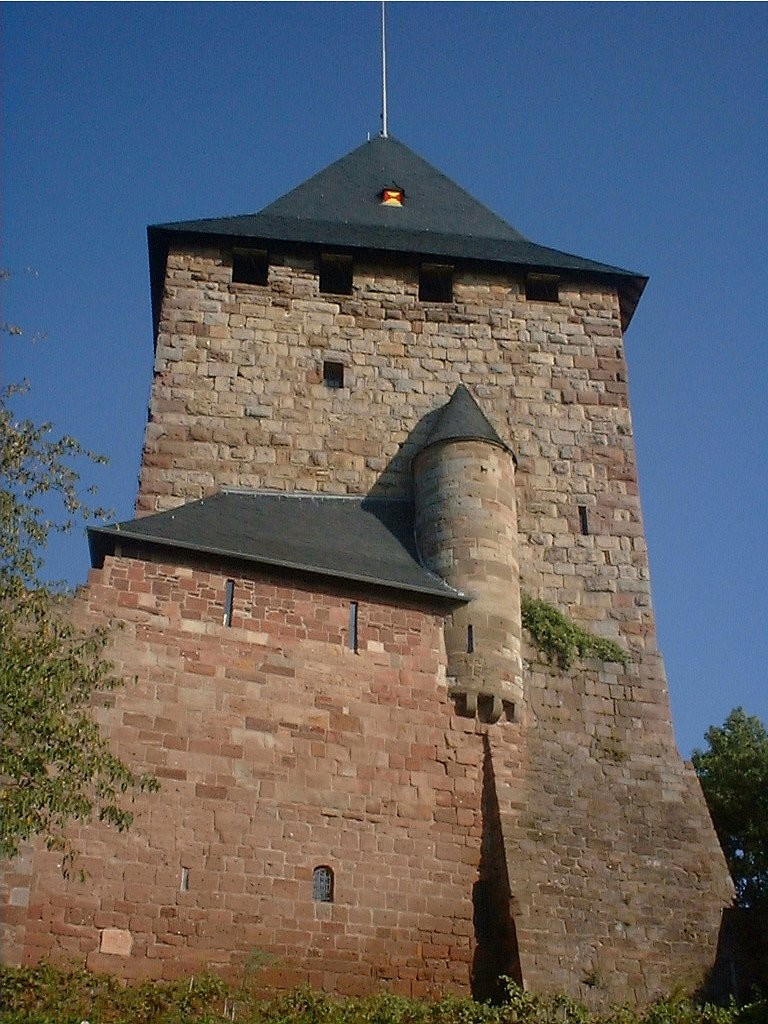 Castle of Nideggen - Keep